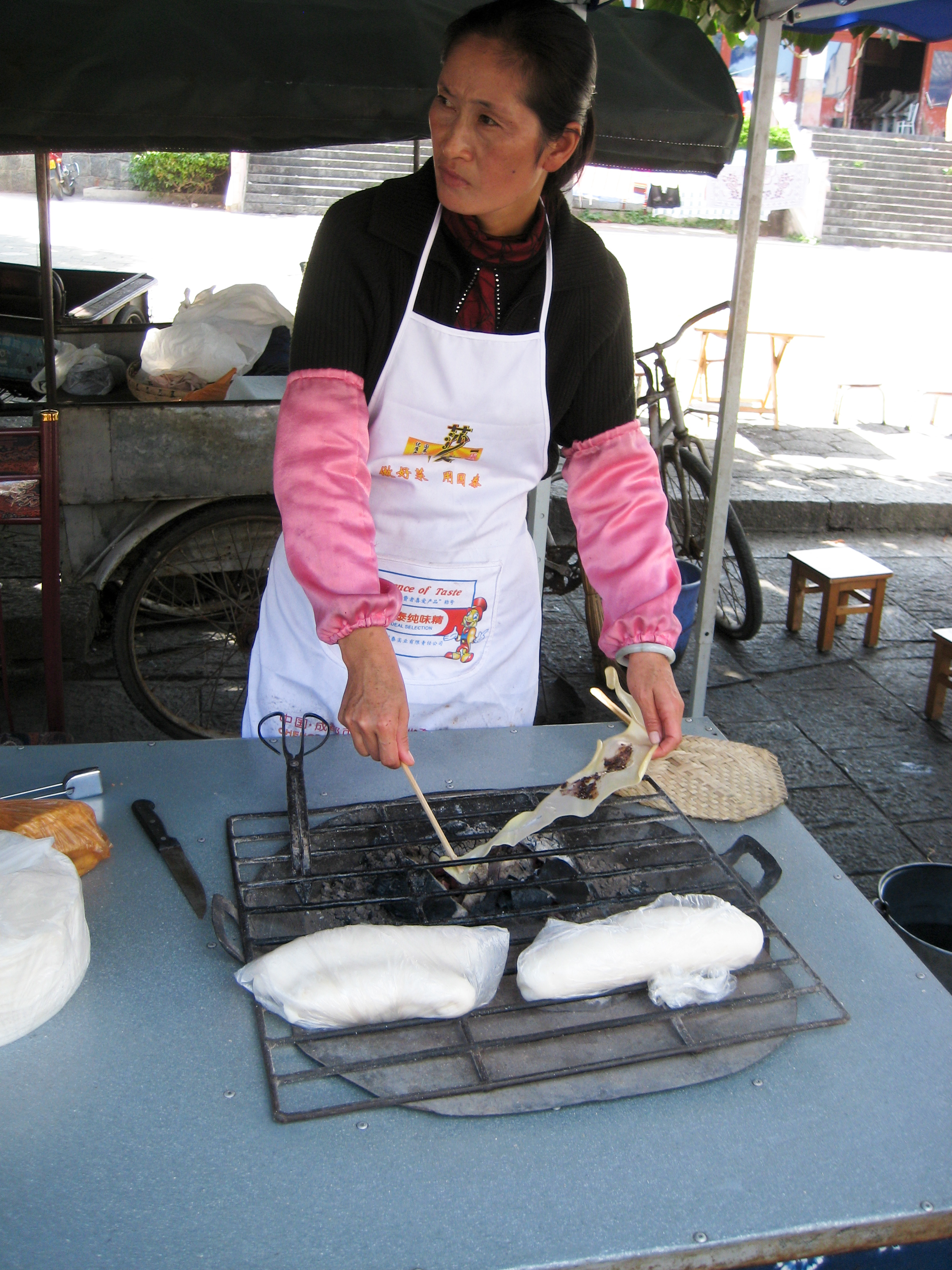 The white sheet is Rushan, an aired yogurt/milk mixture and ends up as a thin sheet. Here it has some sweet brown sugar and is being roasted over coals.